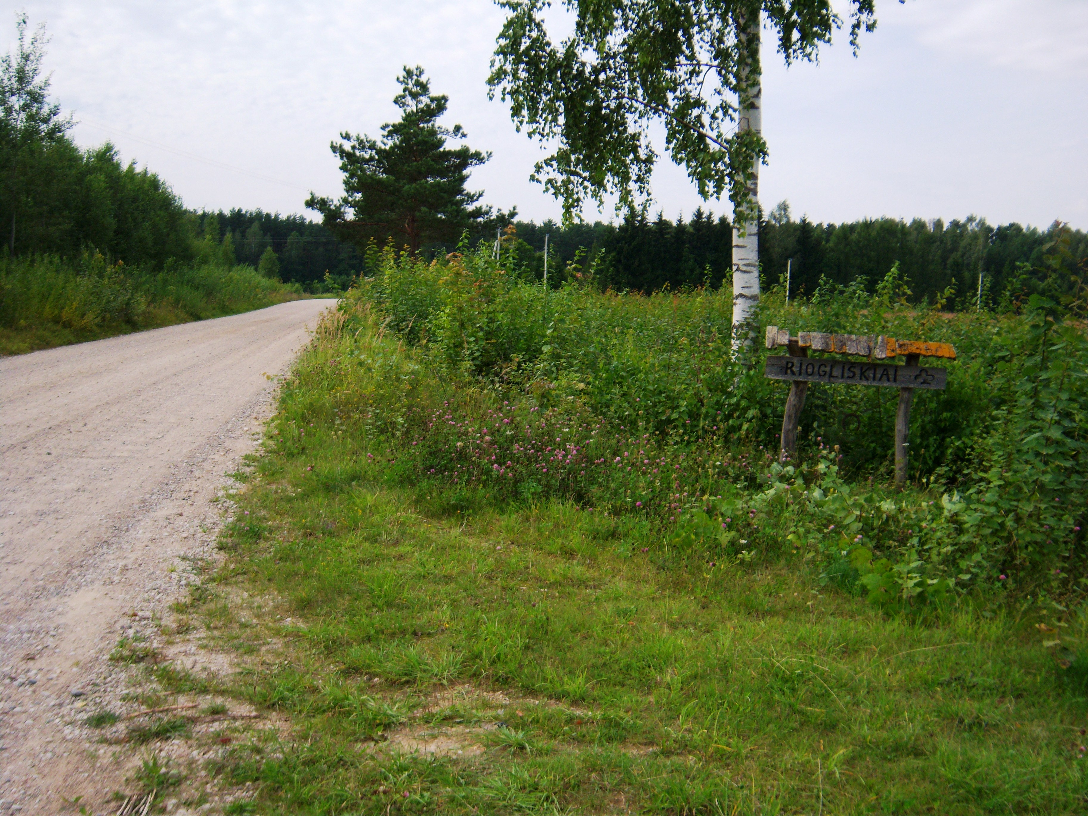 Gravel road in Riogliškiai, Kaunas district. Lithuania